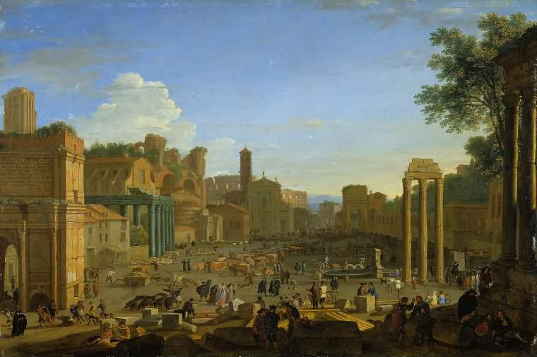 View on Campino Vaccino, the former Forum Romanum, in Rome